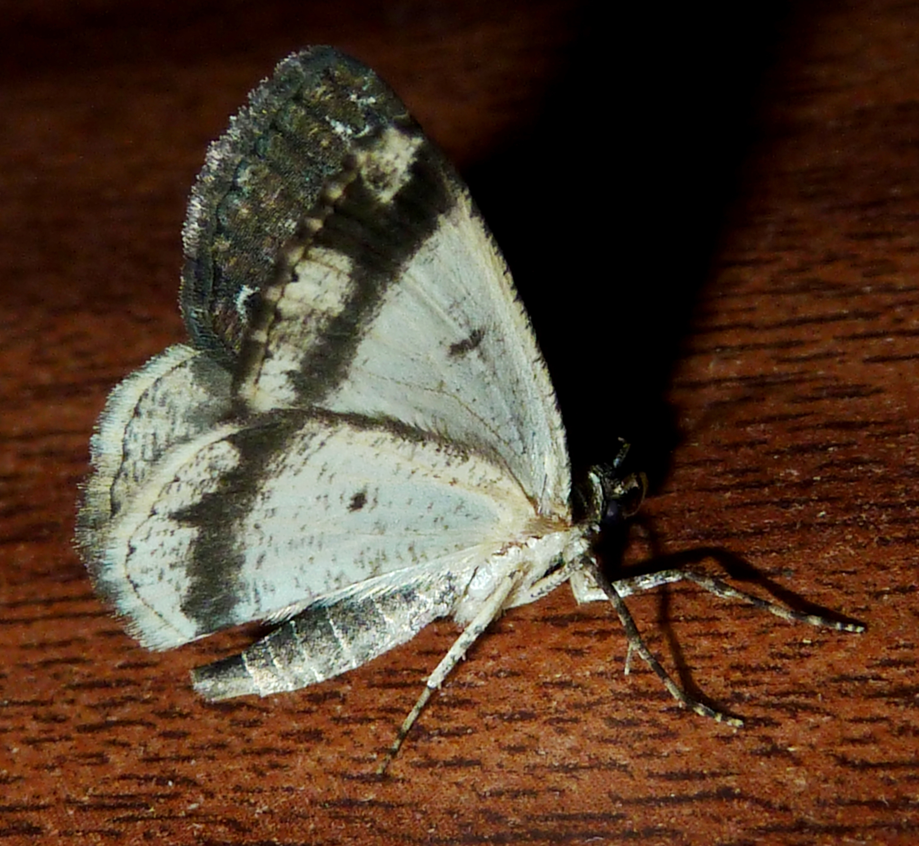 Xylopteryx arcuata, here photographed in Pretoria, is a widespread and variable species in southern Africa. Its host plant is Searsia pyroides.